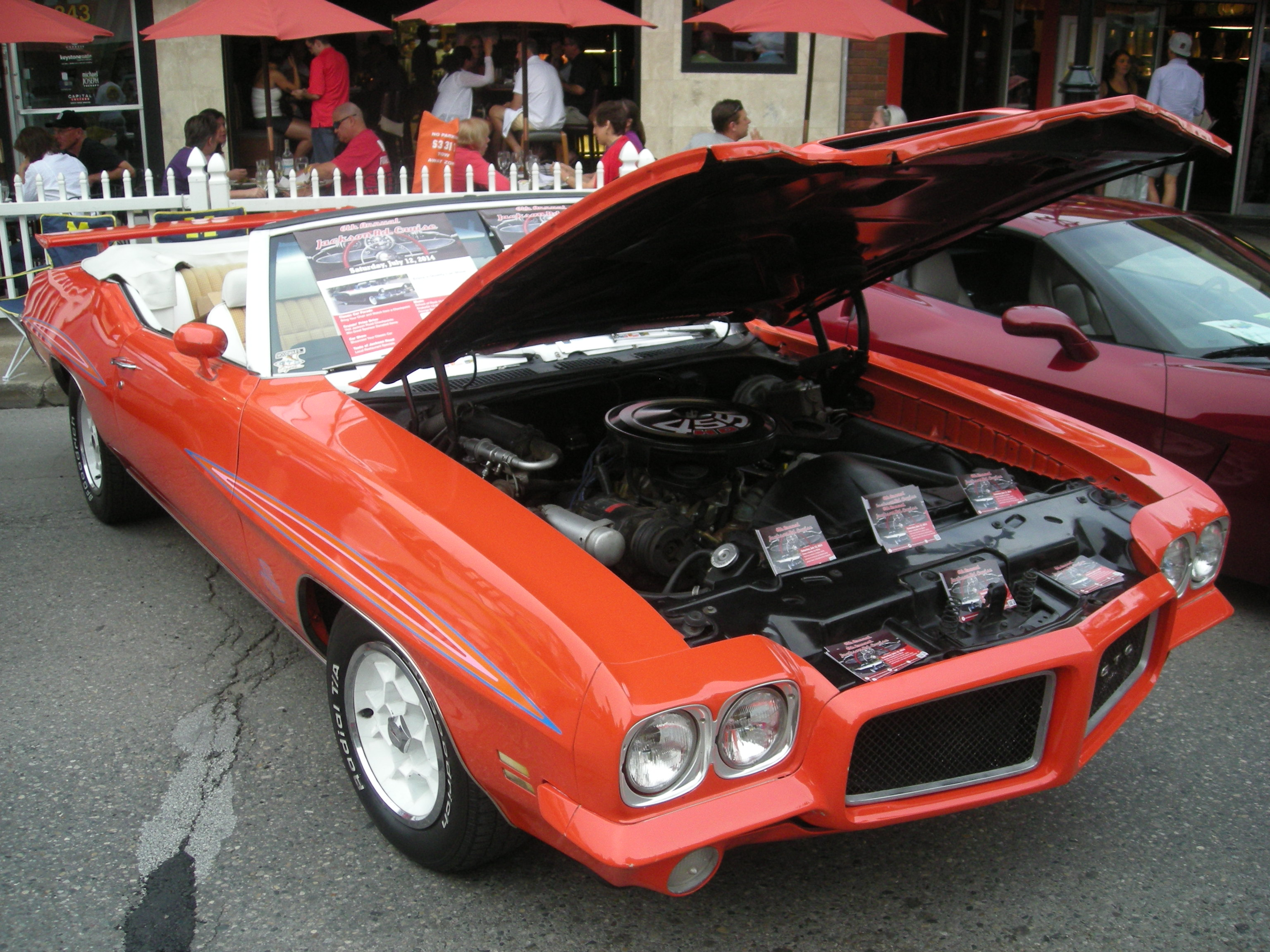 A 1971 Pontiac GTO at the 2014 Rolling Sculpture Car Show in Ann Arbor, Michigan (United States).